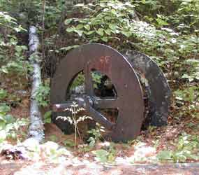 Mining remnant from Little American Island, Rainy Lake, Voyageurs National Park, Minnesota, USA